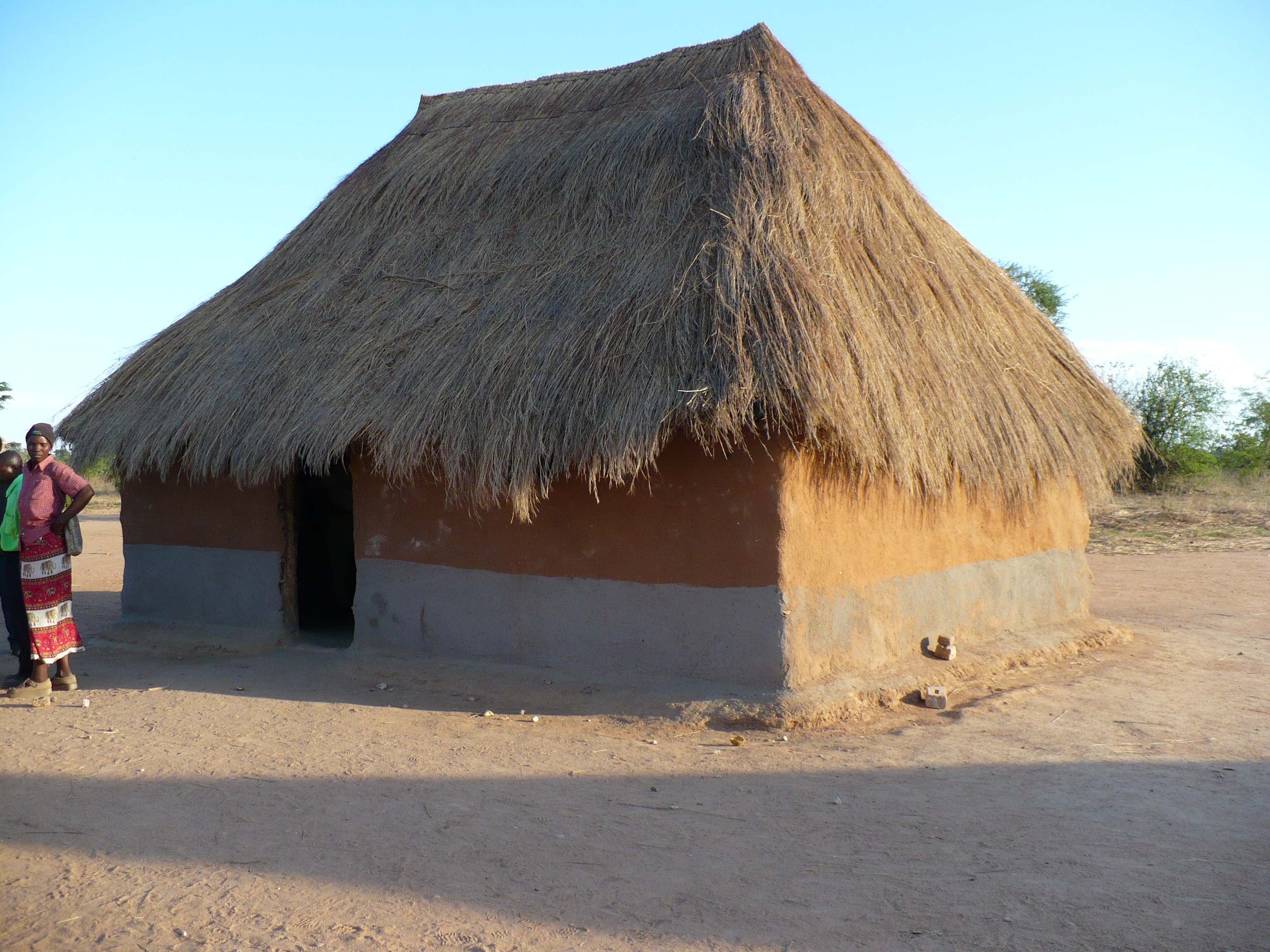 School building in a rural area